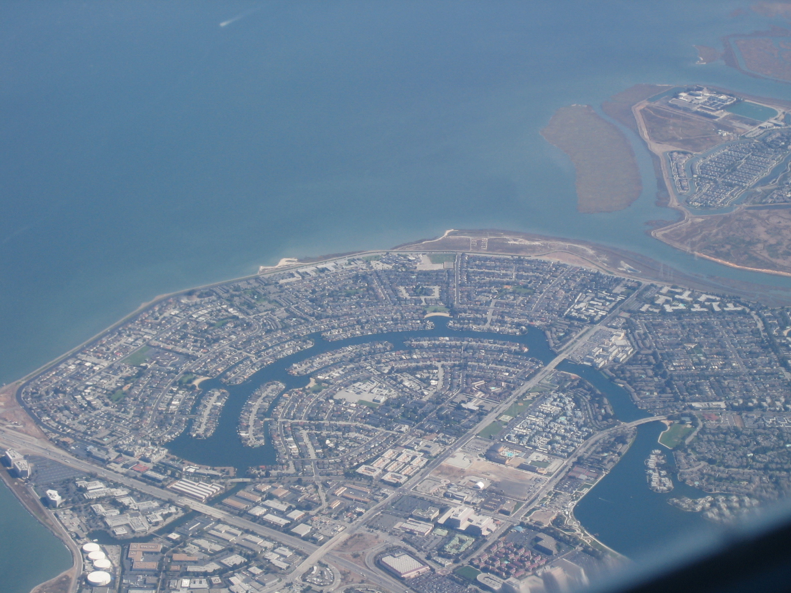 Aerial view of Foster City that I took in October, 2005.